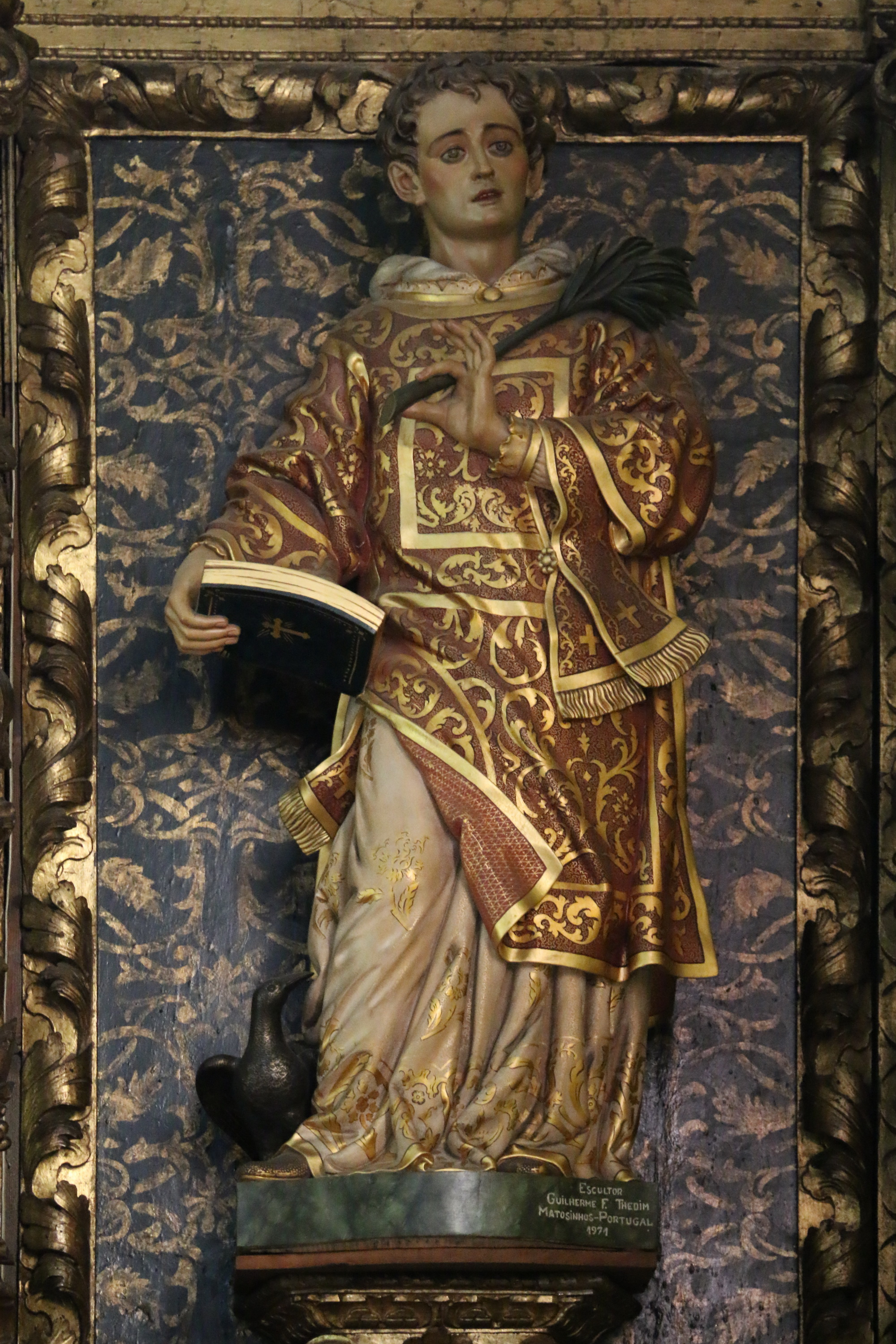 Igreja de São Vicente, Bragança, Portugal